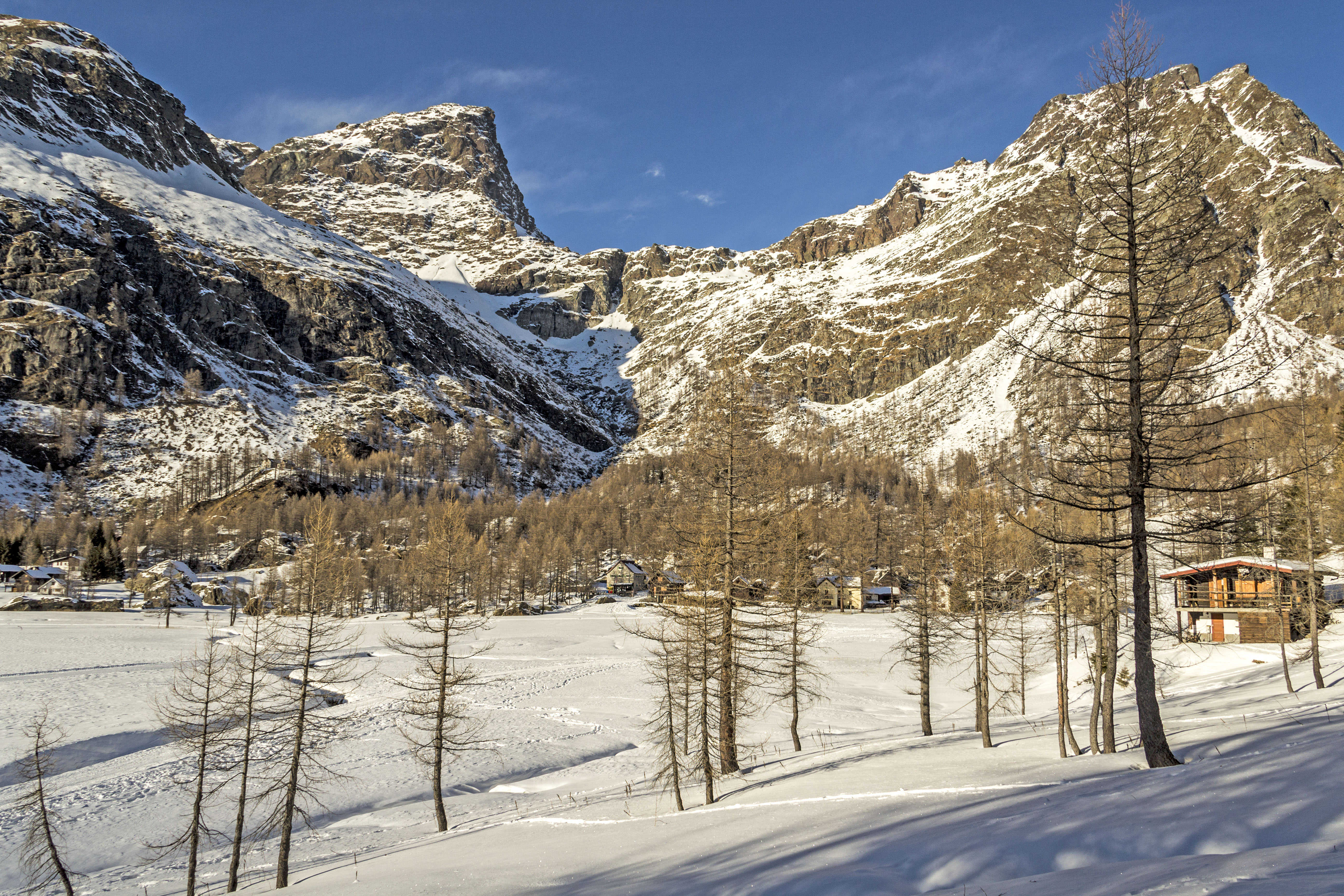 This is a photo of a monument which is part of cultural heritage of Italy.